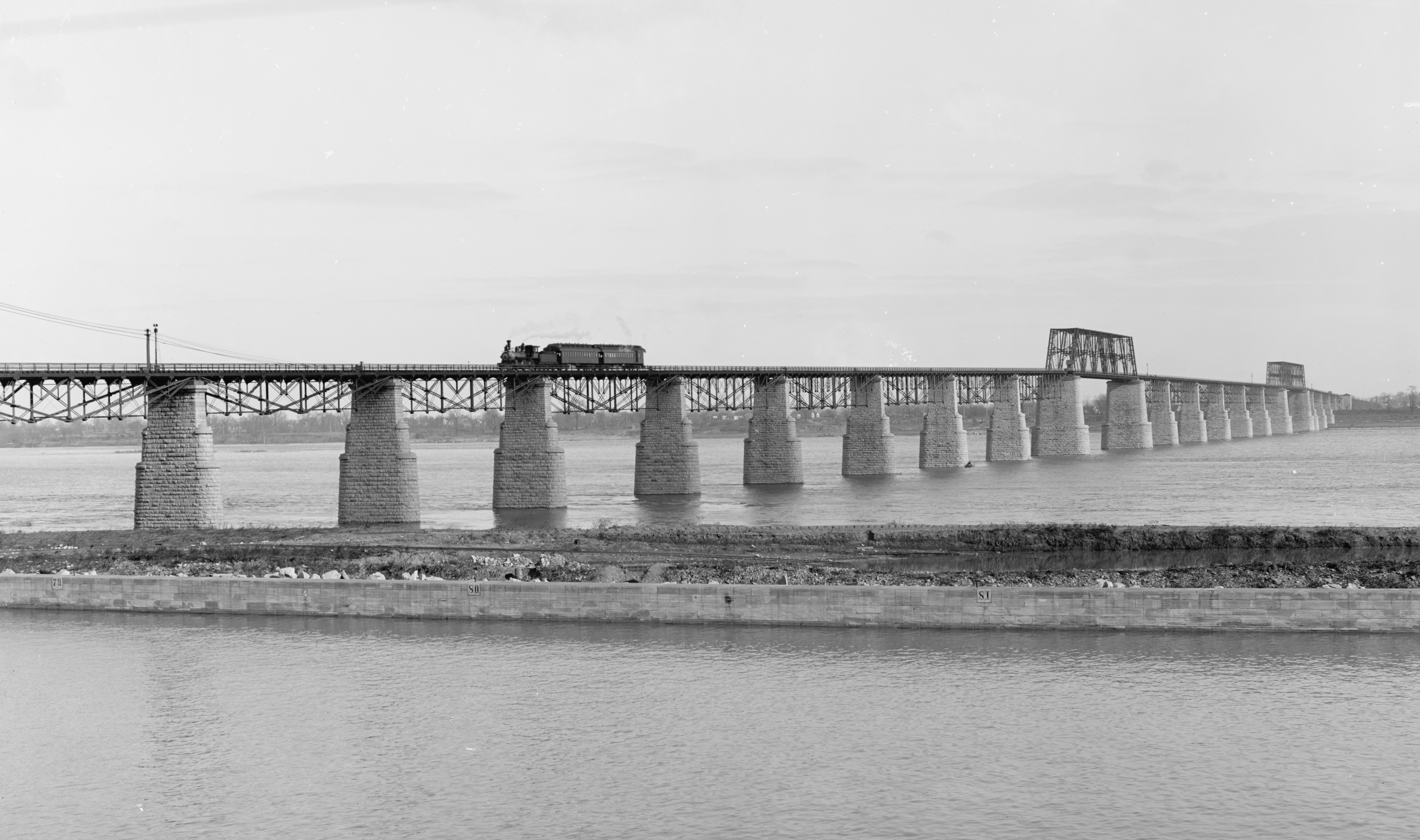 Fourteenth Street Bridge, Louisville, Ky.